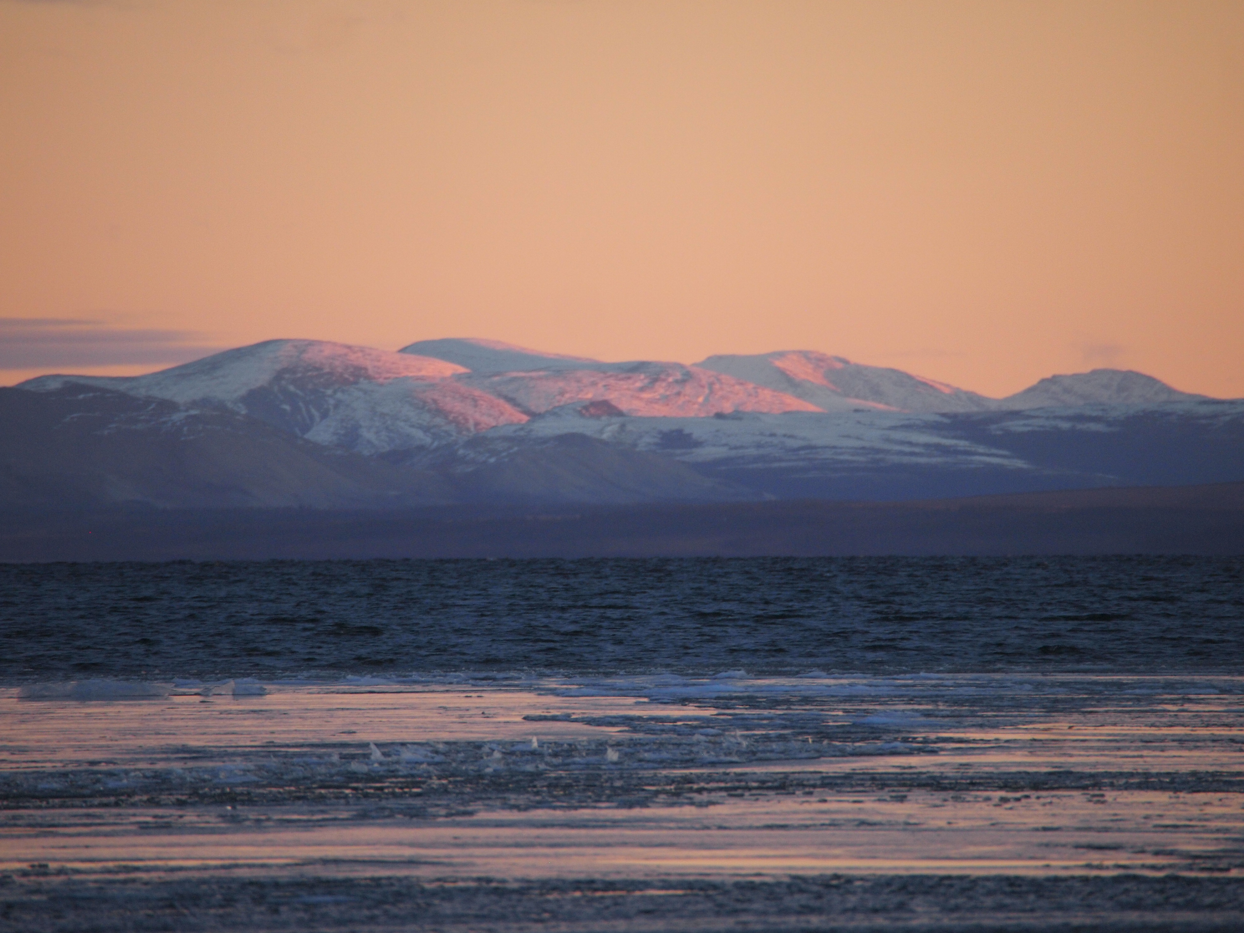 The Kotzebue Sound as seen from Cape Krusenstern.